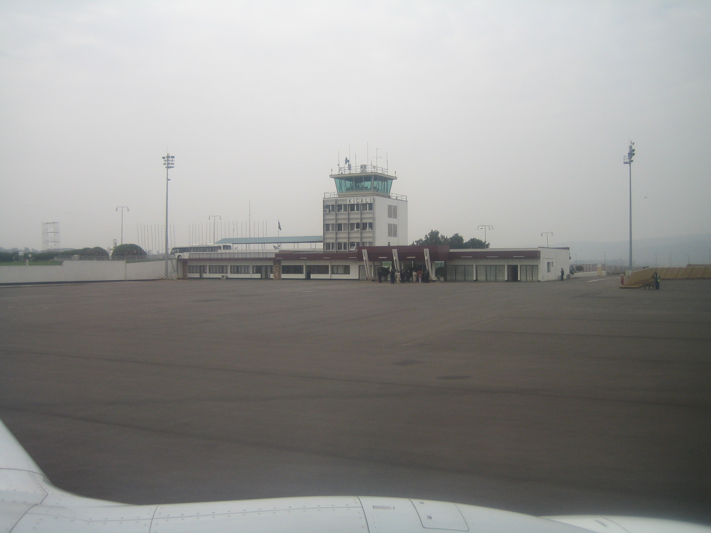 The former terminal of Kigali Airport, now used for VIP arrivals.